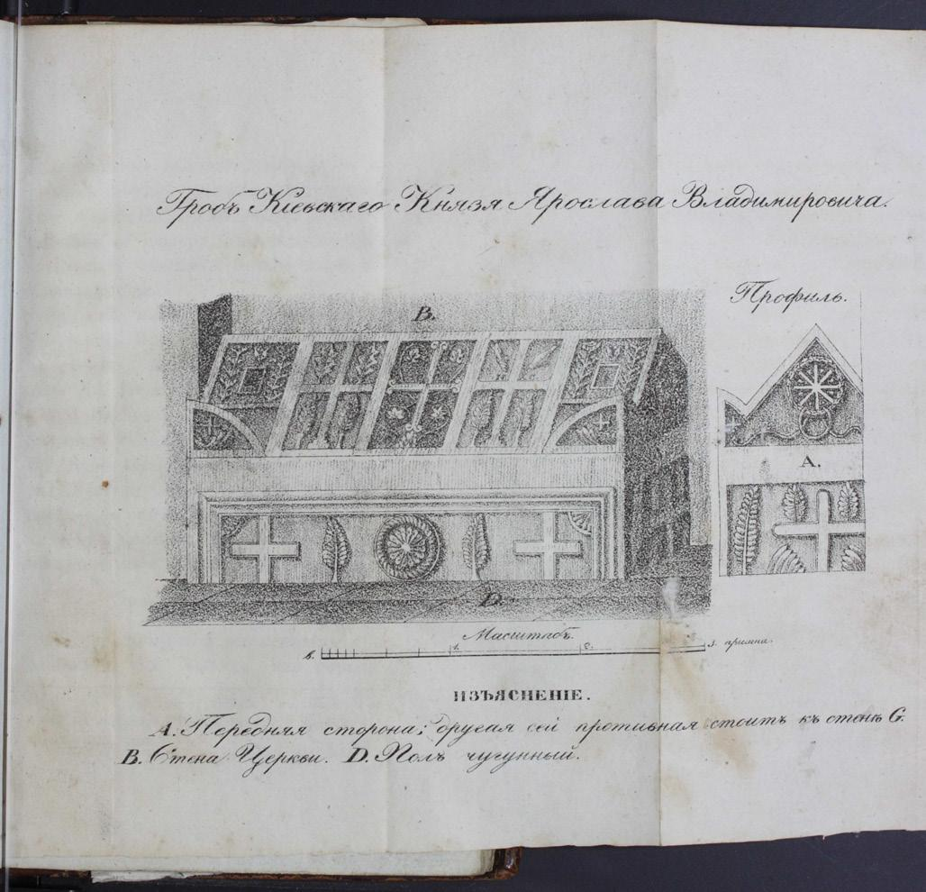 Tomb of Yaroslav I the Wise drawing